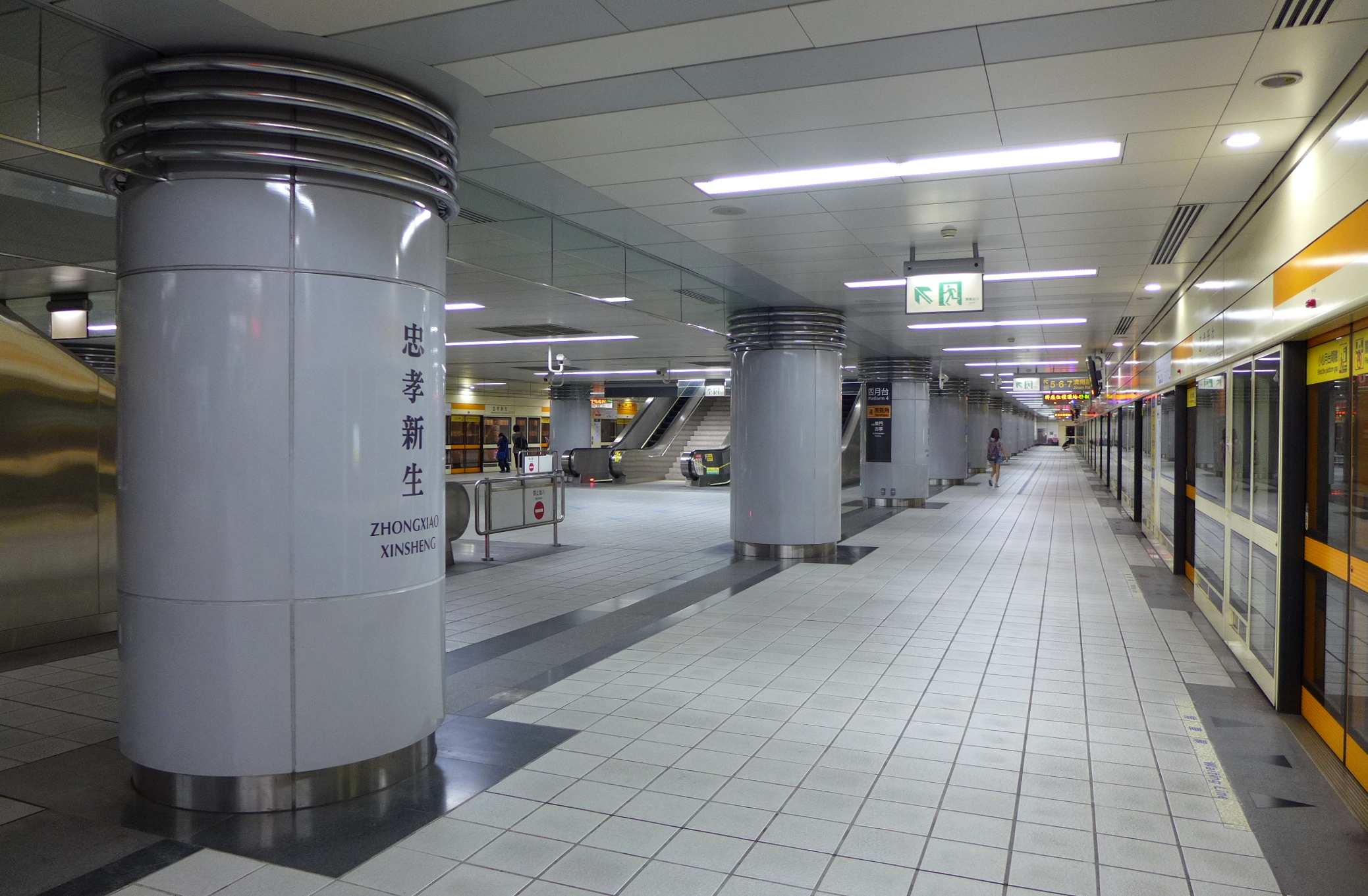 Platform 3, Zhongxiao Xinsheng Station, Taipei Metro.